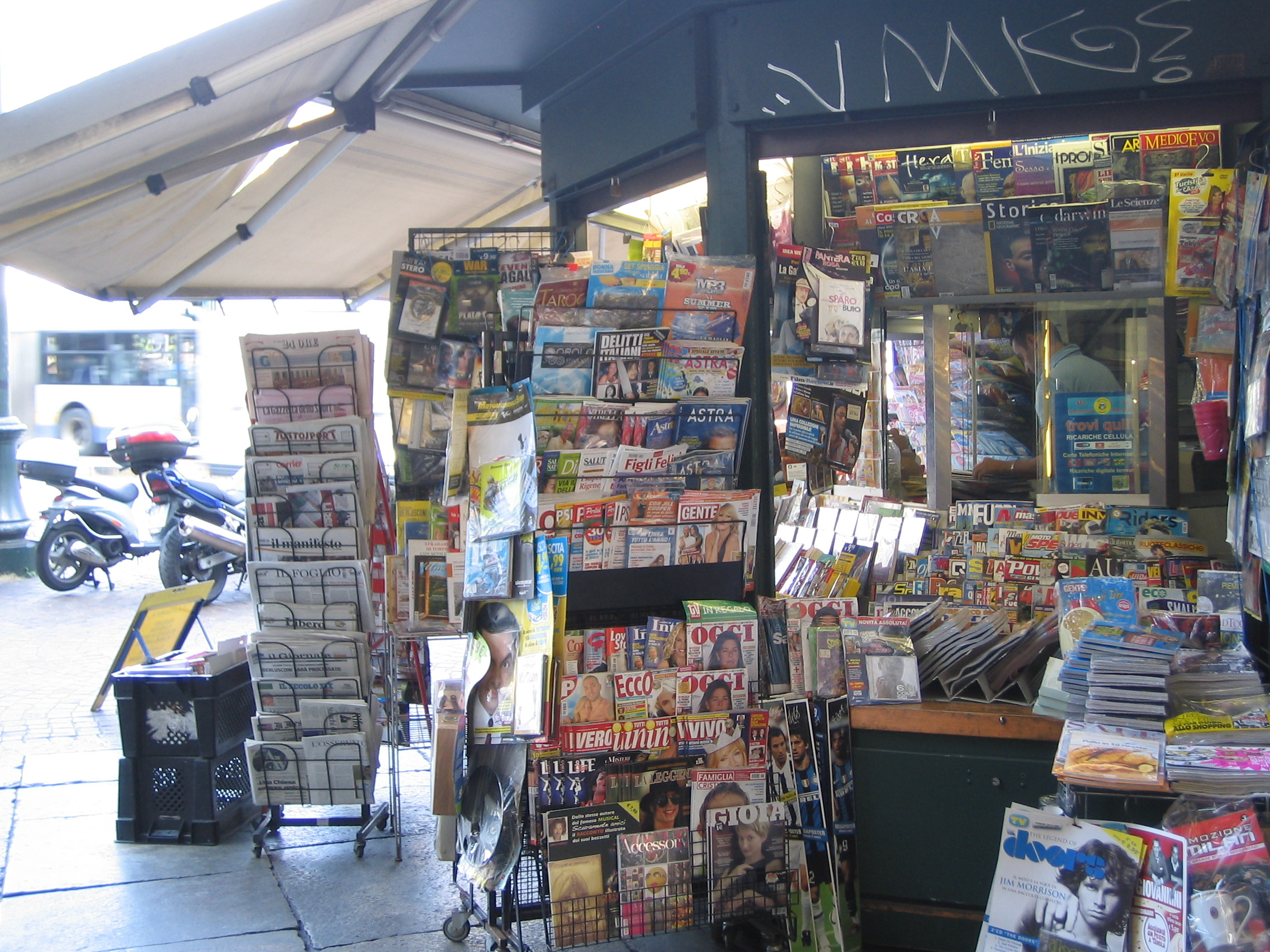 Newspaper stand, Italy